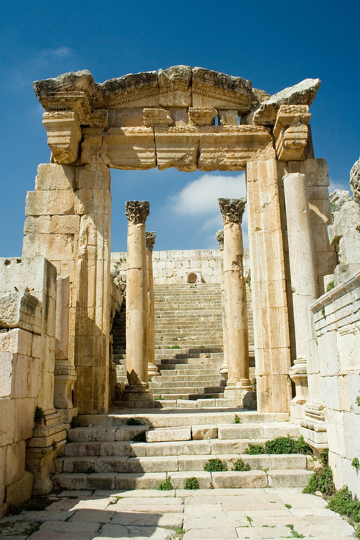 The monumental and richly carved gateway of the 2nd century Roman temple of Dionysus in Jerash, Jordan.